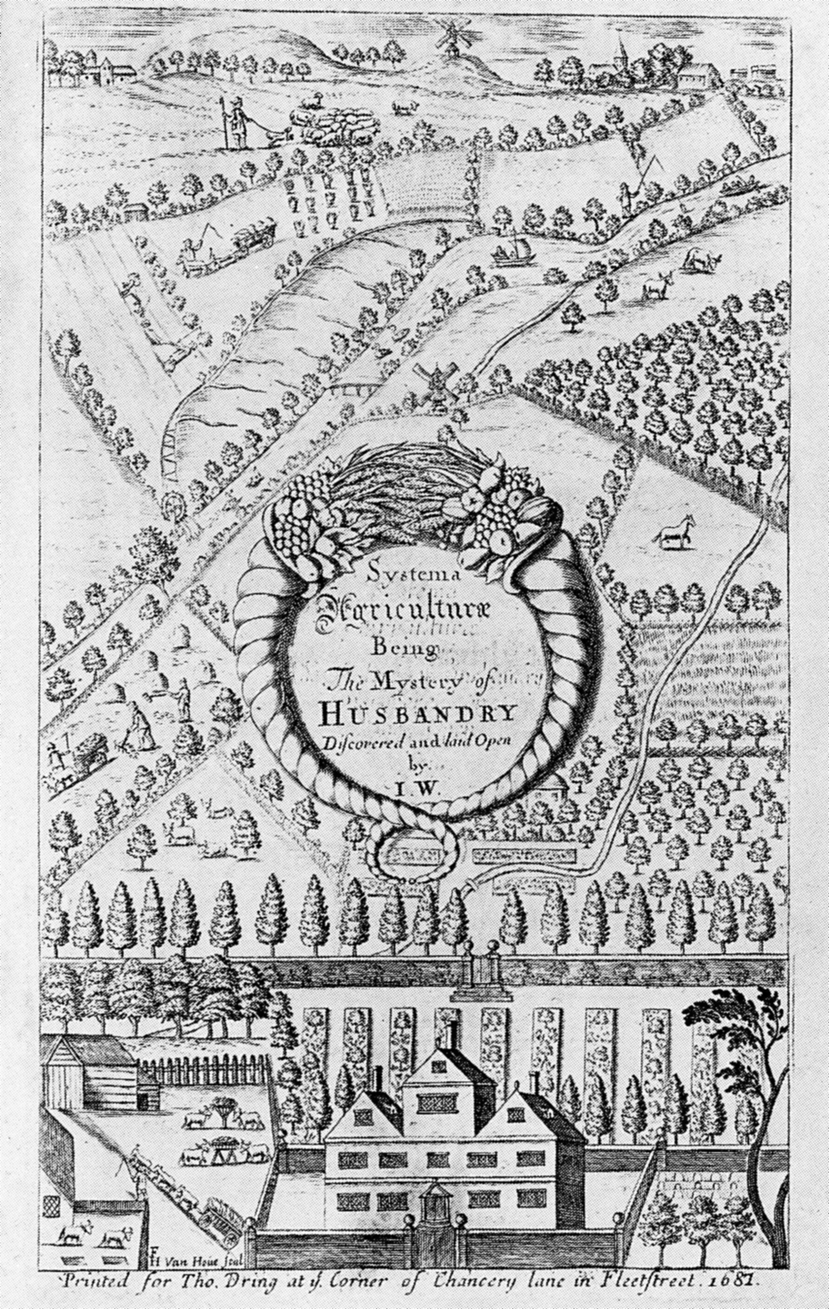 Title page of "Systema agriculturae", John Worlidge, 1698 ed.